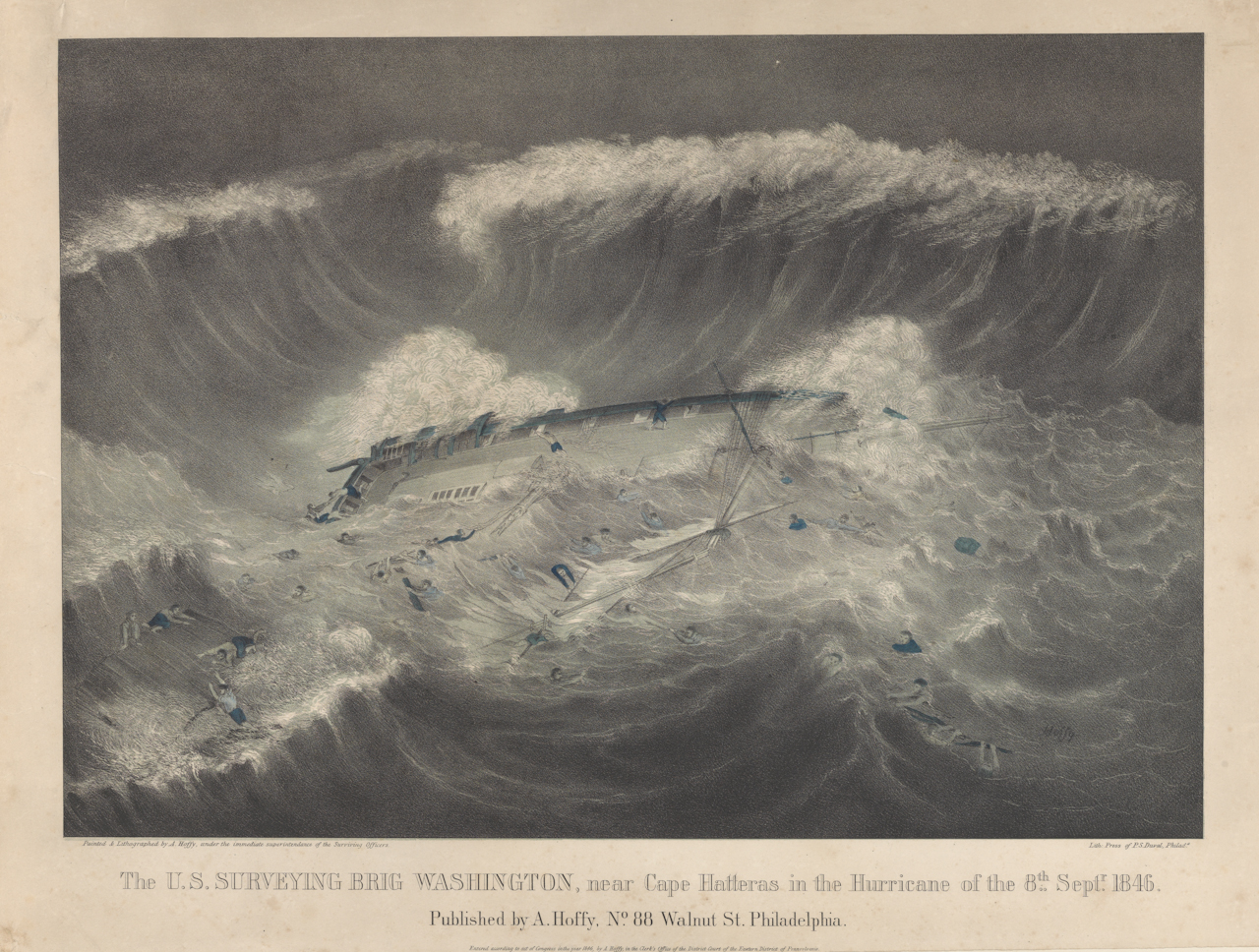 The U.S. Surveying Brig Washington near Cape Hatteras in the Hurricane of the 8th Septr 1846 Signed by artist in plate. The U.S. Surveying Brig Washington near Cape Hatteras in the Hurricane of the 8th Septr 1846